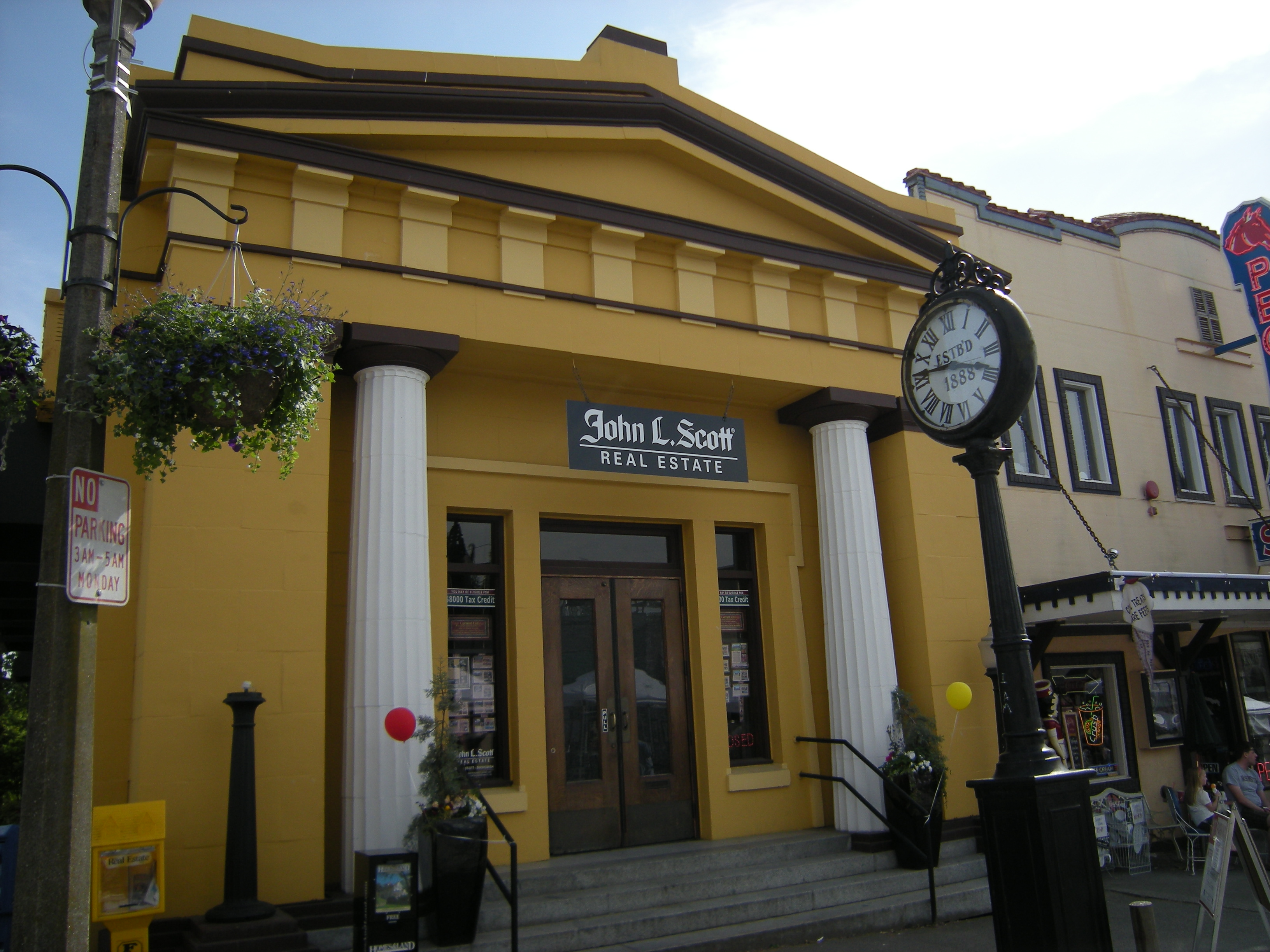 1001 First Street, Snohomish, Washington, built 1907 as the first reinforced concrete buildng in Snohomish County. Originally the First National Bank of Snohomish, then First National Bank of Everett, Seattle First National Bank (Seafirst). It then became the Venus Restaurant, and is now a John L. Scott real estate office. In front is a street clock that dates back in 1888 and moved here with the original bank.